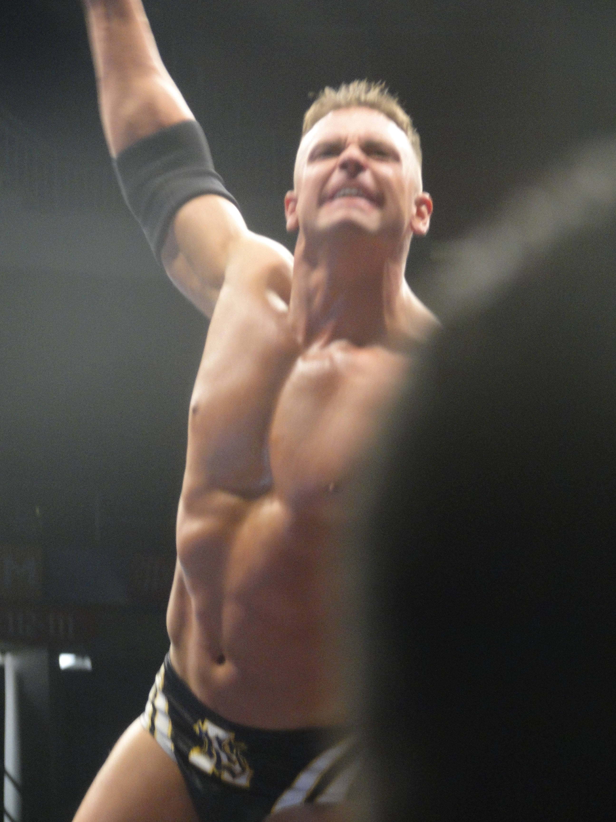 Alex Riley